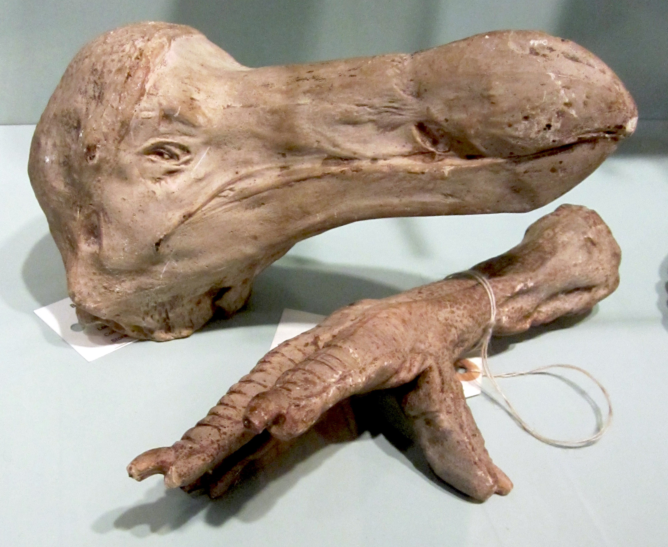 Dodo casts, c. 1800. Willet collected natural history specimens throughout his life and was a long-serving member of the Brighton Museum (as distinct from the Fine Art) Committee. These pieces are plaster casts of the head and foot of one of the last Dodos from Mauritius in the Indian Ocean. These friendly, flightless birds, called duodo (stupid) by the Portuguese, were extinct by 1681. Donated by Henry Willett, 1884. Booth Museum